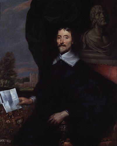 Probably Sir Thomas Aylesbury, 1st Baronet